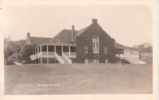 A postcard of the hospital at Sonoma State Home ca. 1910.